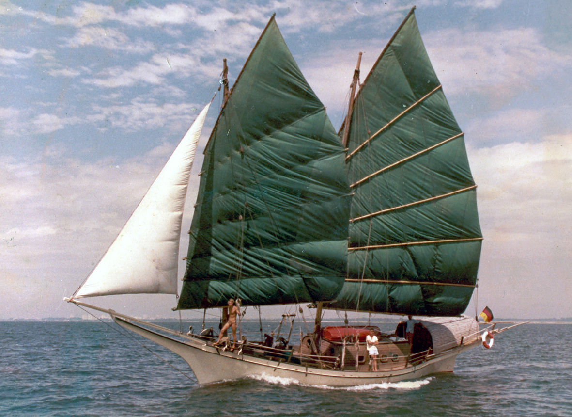 This is one of the first shots of the original Naga Pelangi, bedar, on her maiden voyage from Terengganu via Singapore to Penang, 1981